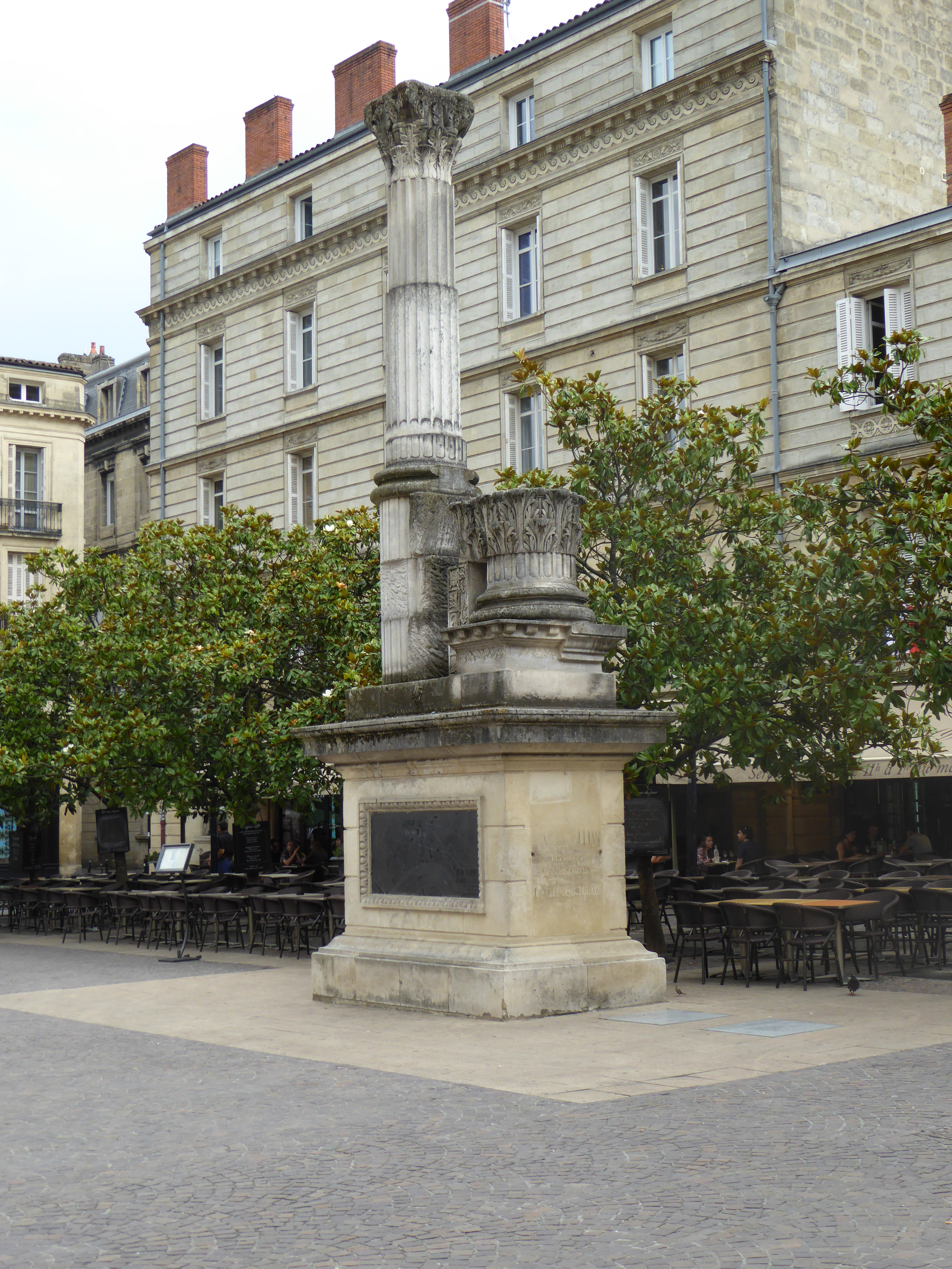 Place Camille Jullian, Bordeaux, France, July 2014